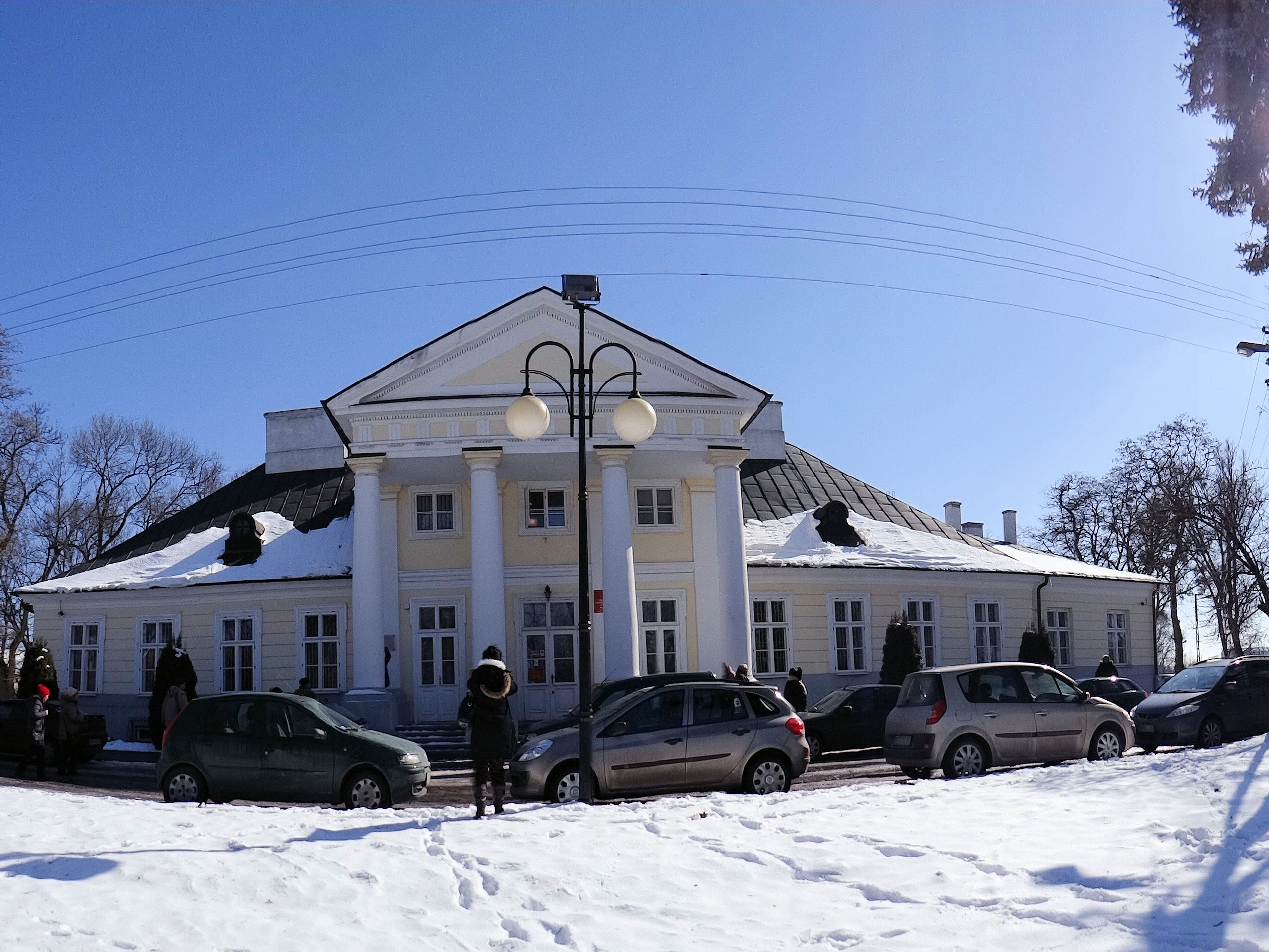 Palace in Sochaczew Czerwonka